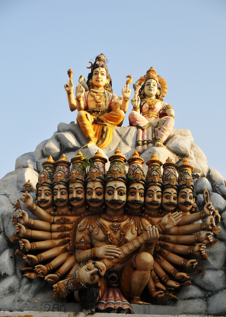 Ravana is a great scholar, a capable ruler, a player of the veena and a devoted follower of Shiva, and he has his apologists and staunch devotees within the Hindu traditions